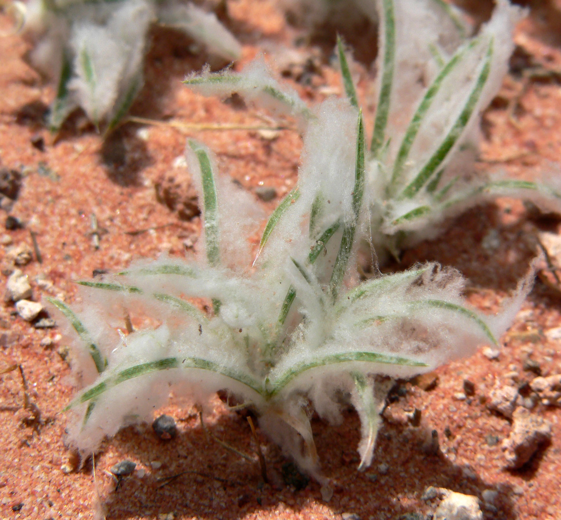 Dasyochloa pulchella in Calico Basin, Red Rock Canyon, southern Nevada